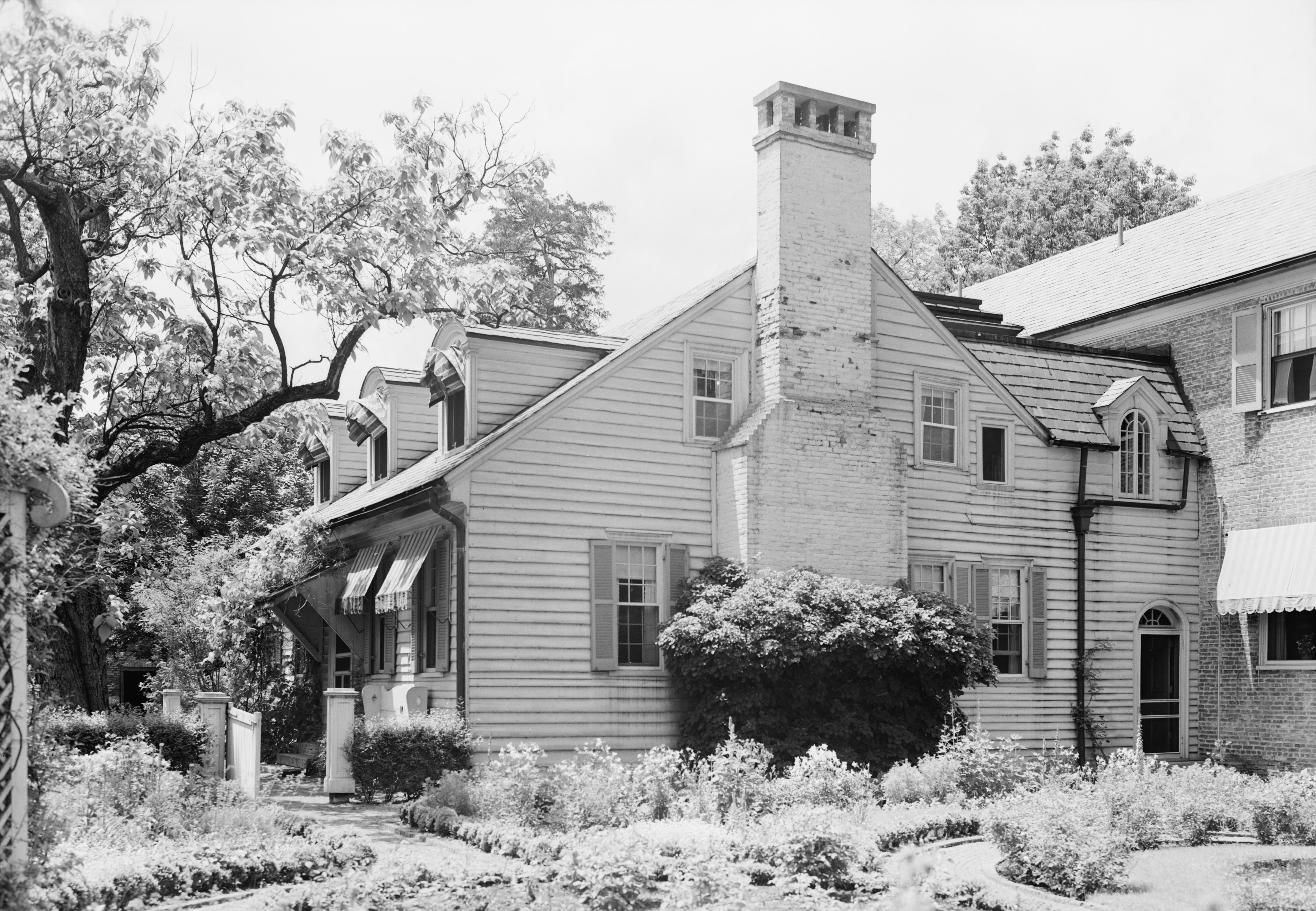 Front of Oxmoor, located at 7500 Shelbyville Road in Louisville, Kentucky, United States. Built in 1787, it is listed on the National Register of Historic Places.